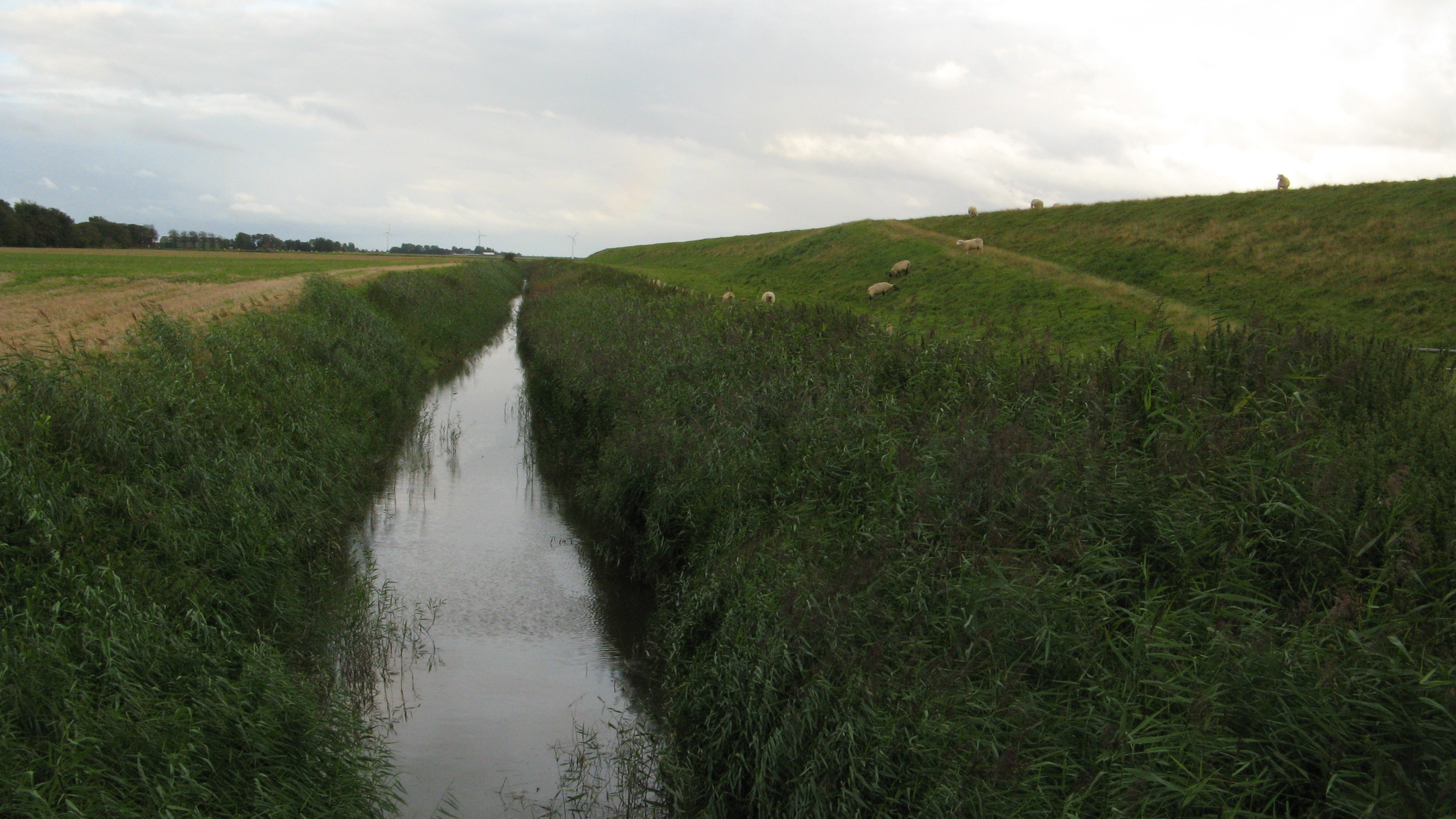 drainage canal in Hillgroven